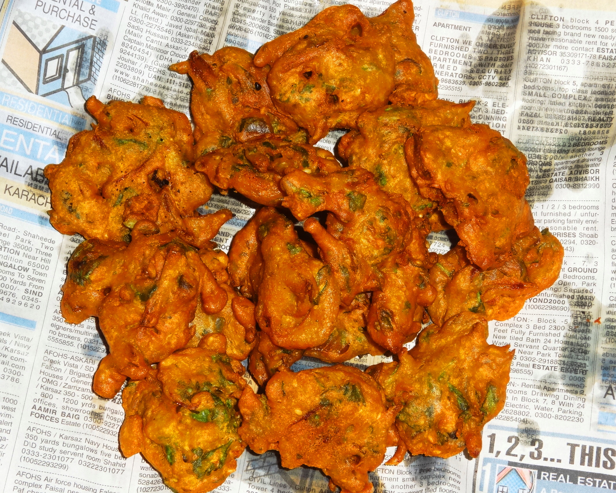 Pakora is a most popular snack in Pakistan and India